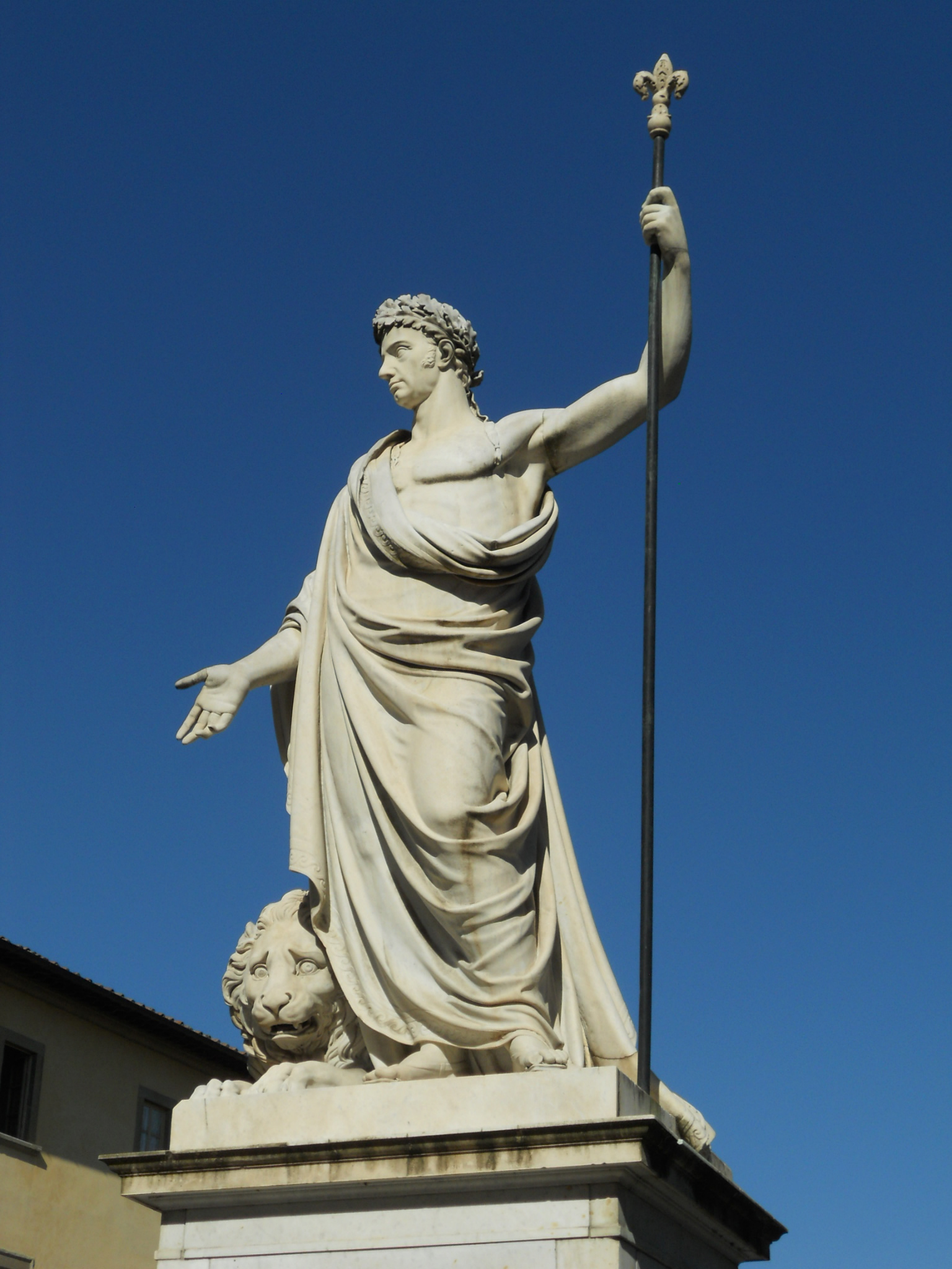 Statue of Ferdinand III, Grand Duke of Tuscany, located at the top of Piaggia di Murello in Arezzo (Arezzo, Tuscany, Italy)